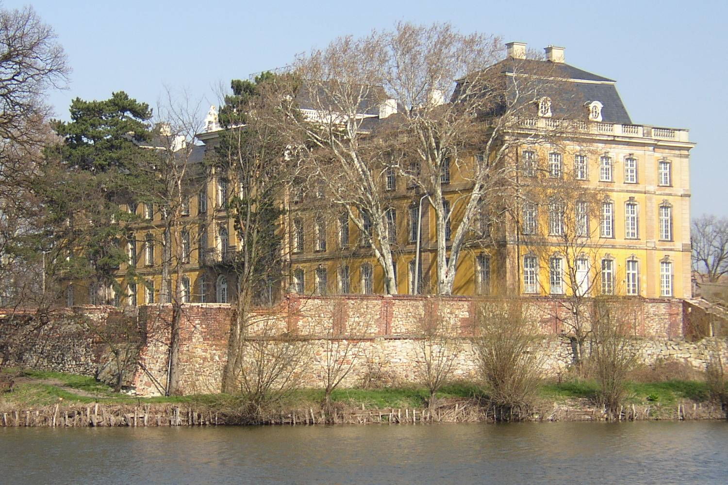 Palace in Gommern-Dornburg in Saxony-Anhalt, Germany